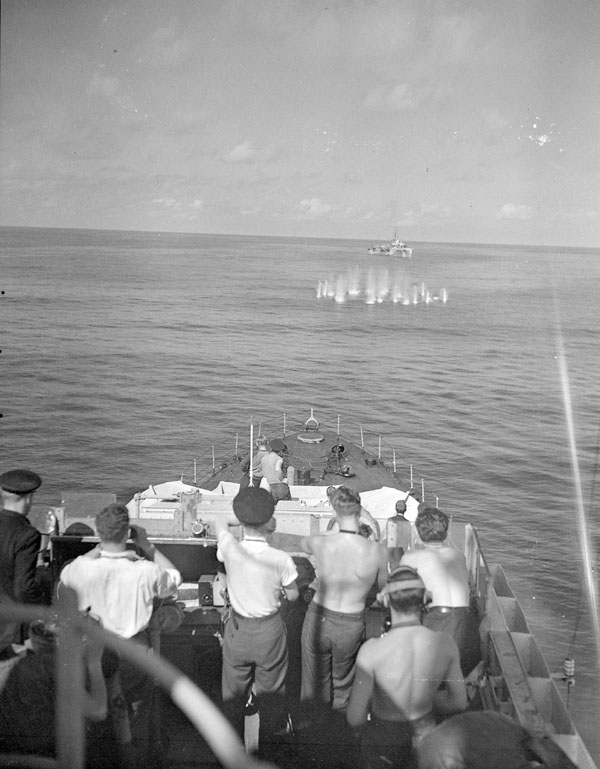 View from H.M.C.S. Kootenay, which has fired Hedgehog charges during the action in which Escort Group 11 sank the German submarine U-621, 18 August 1944. H.M.C.S. Ottawa is visible in the background.